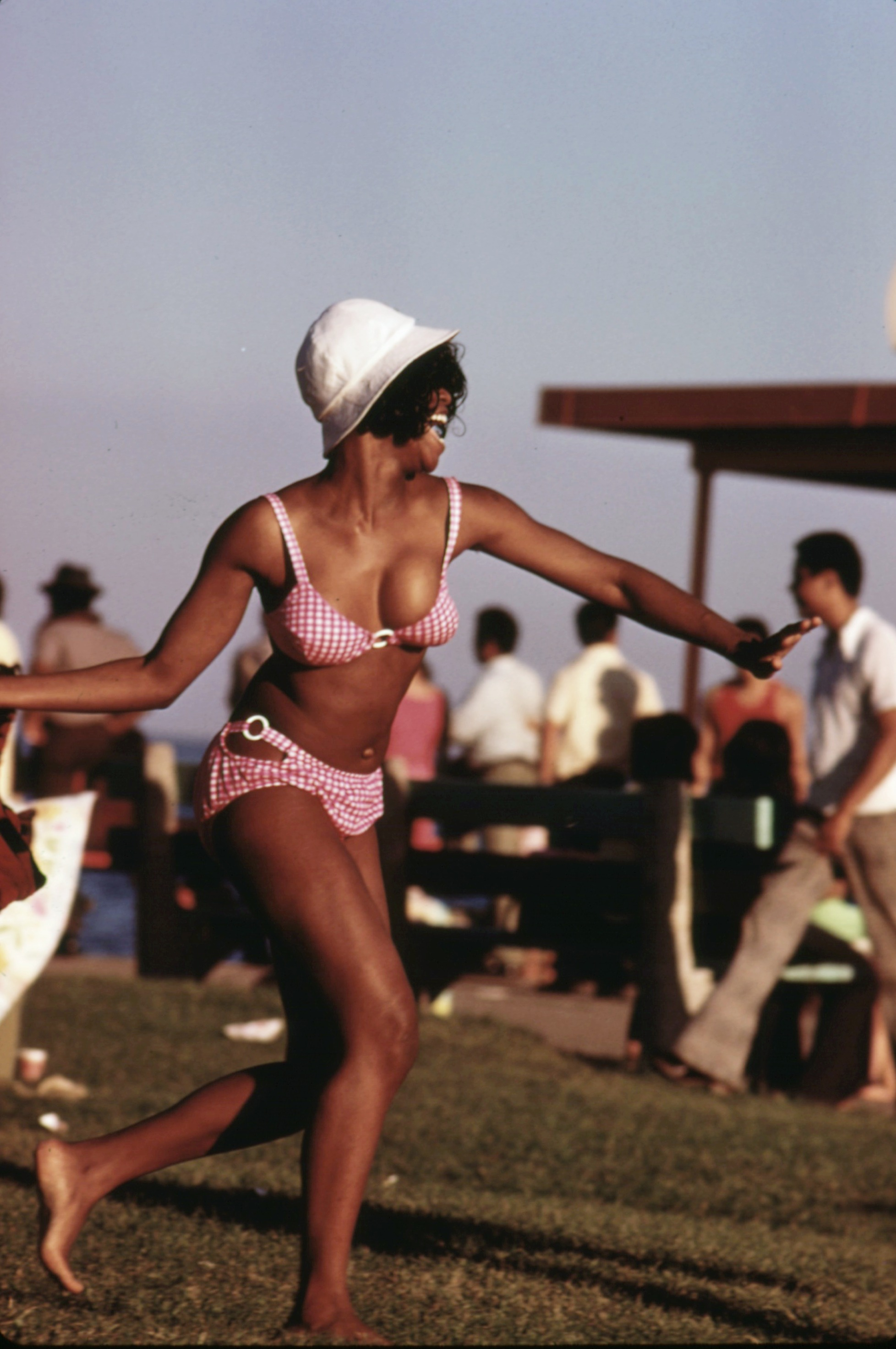 Woman in bikini and hat, Chicago, 1973. Original caption: A swimsuit clad black woman enjoys her summer outing at Chicago's 12th street beach on Lake Michigan. From 1960 to 1970 the percentage of Chicago blacks with an income of $7000 or more jumped from 26 to 58%. Median income during the period increased from $4,700 to $4883, but the Dollar gap between their group and the whites actually widened.